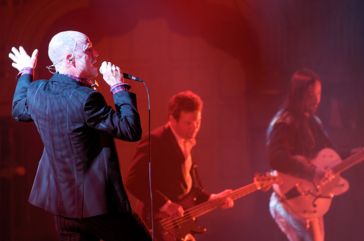 Canadian Rock Legends The Tragically Hip play during a stop at the Orpheum in Vancouver, June 22nd, 2009, on their tour supporting their album "We are the same."